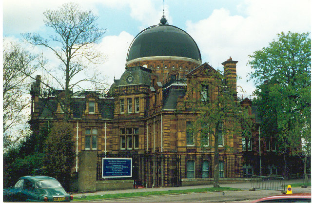 Greenwich Observatory. Another view of the main building.